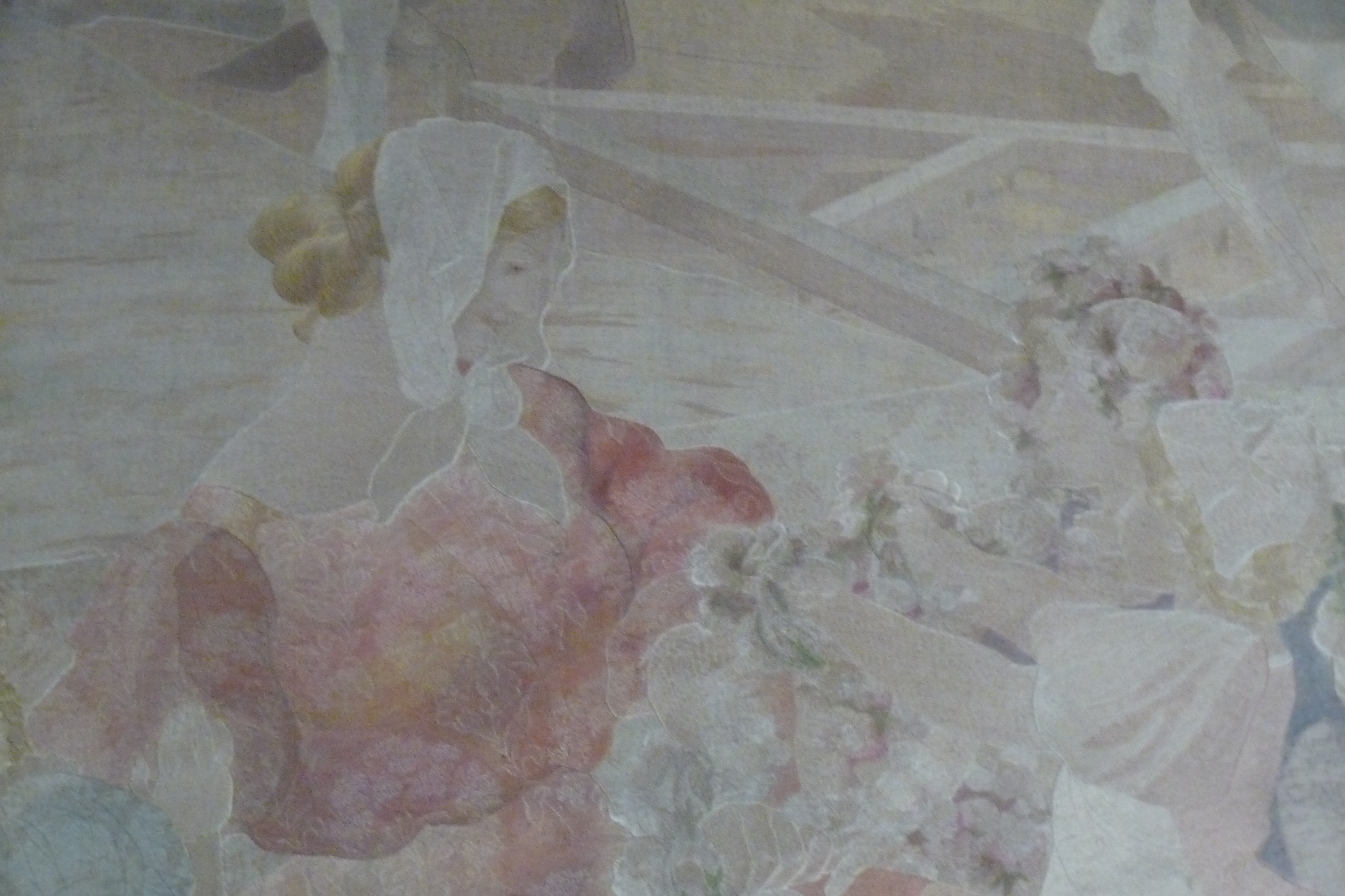 Detail of silk tapestry by Hélène et Isidore De Rudder